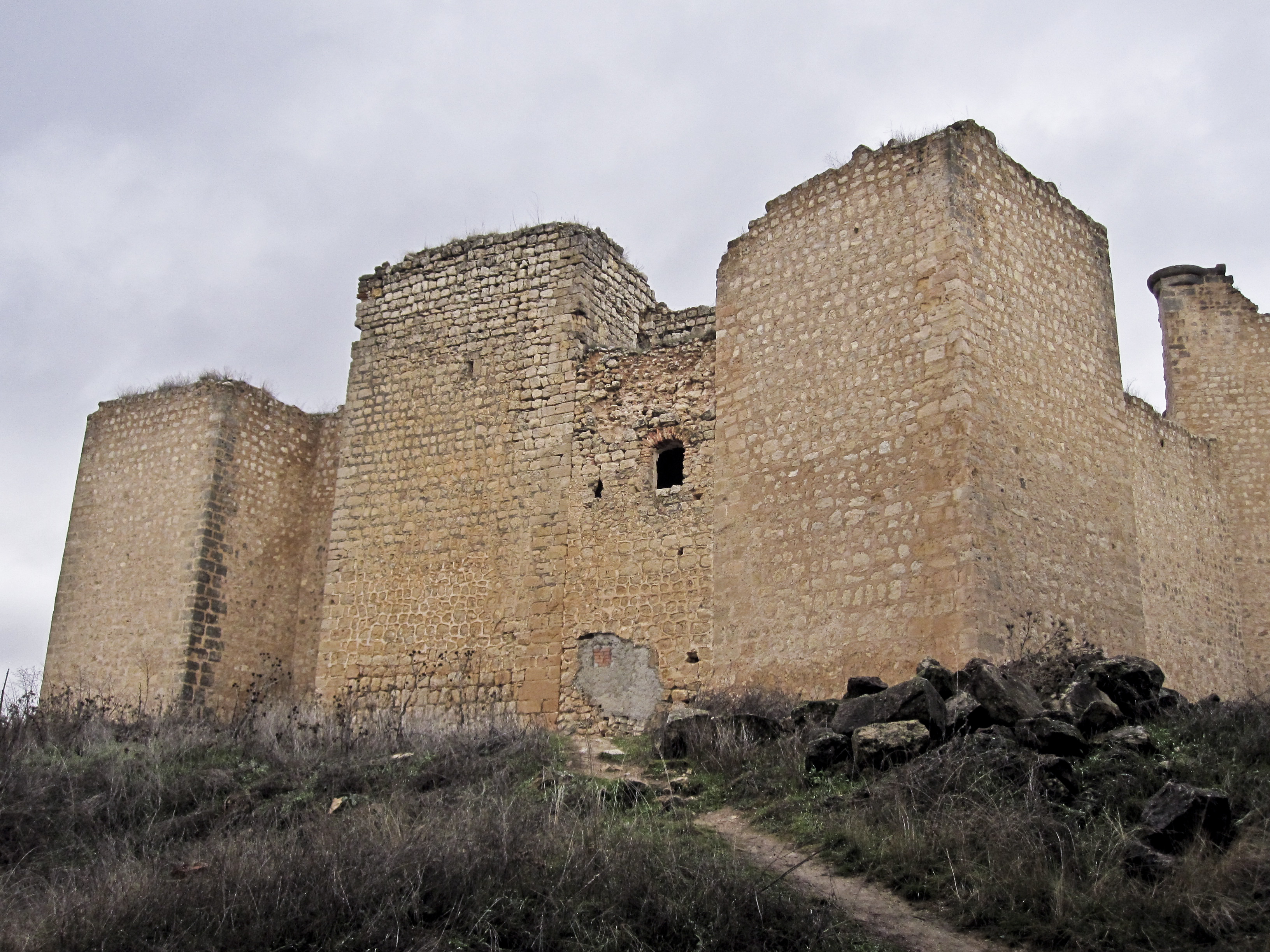 Cifuentes, Spain. Castle